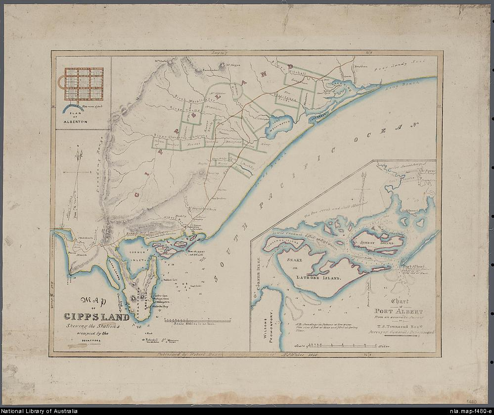 Map of Gippsland showing the stations occupied by the squatters